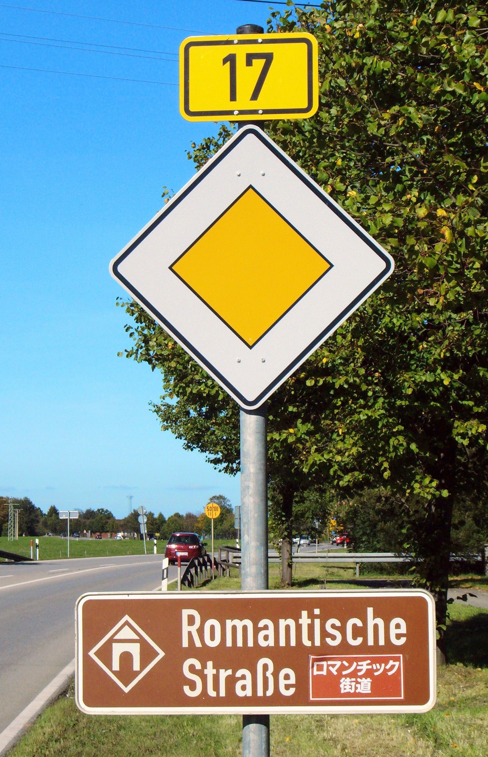 Bundesstraße 17 / Romantic Road Sign near Römerkessel, District of Landsberg, Germany